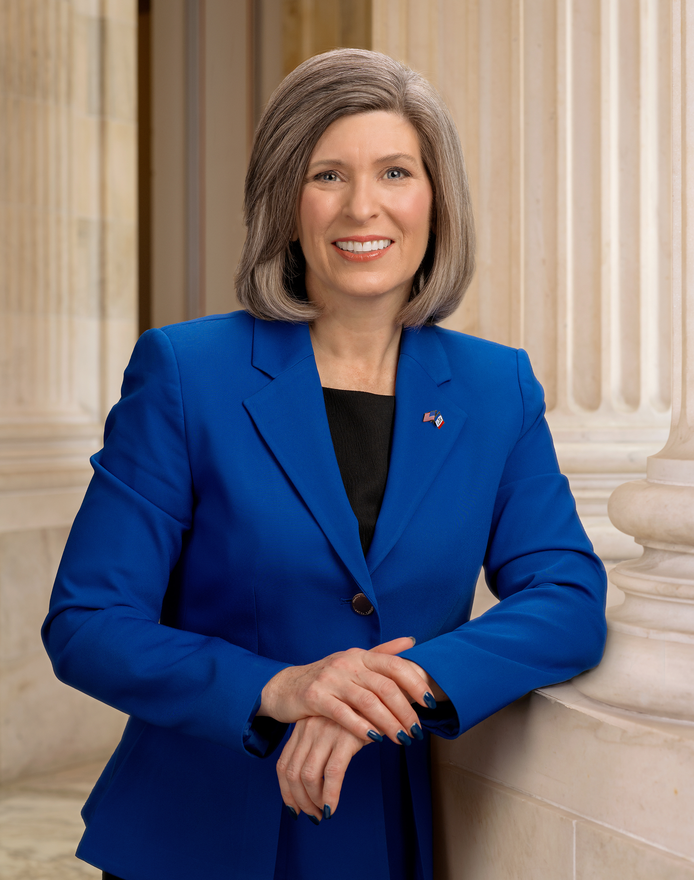 US Senator Joni Ernst of Iowa